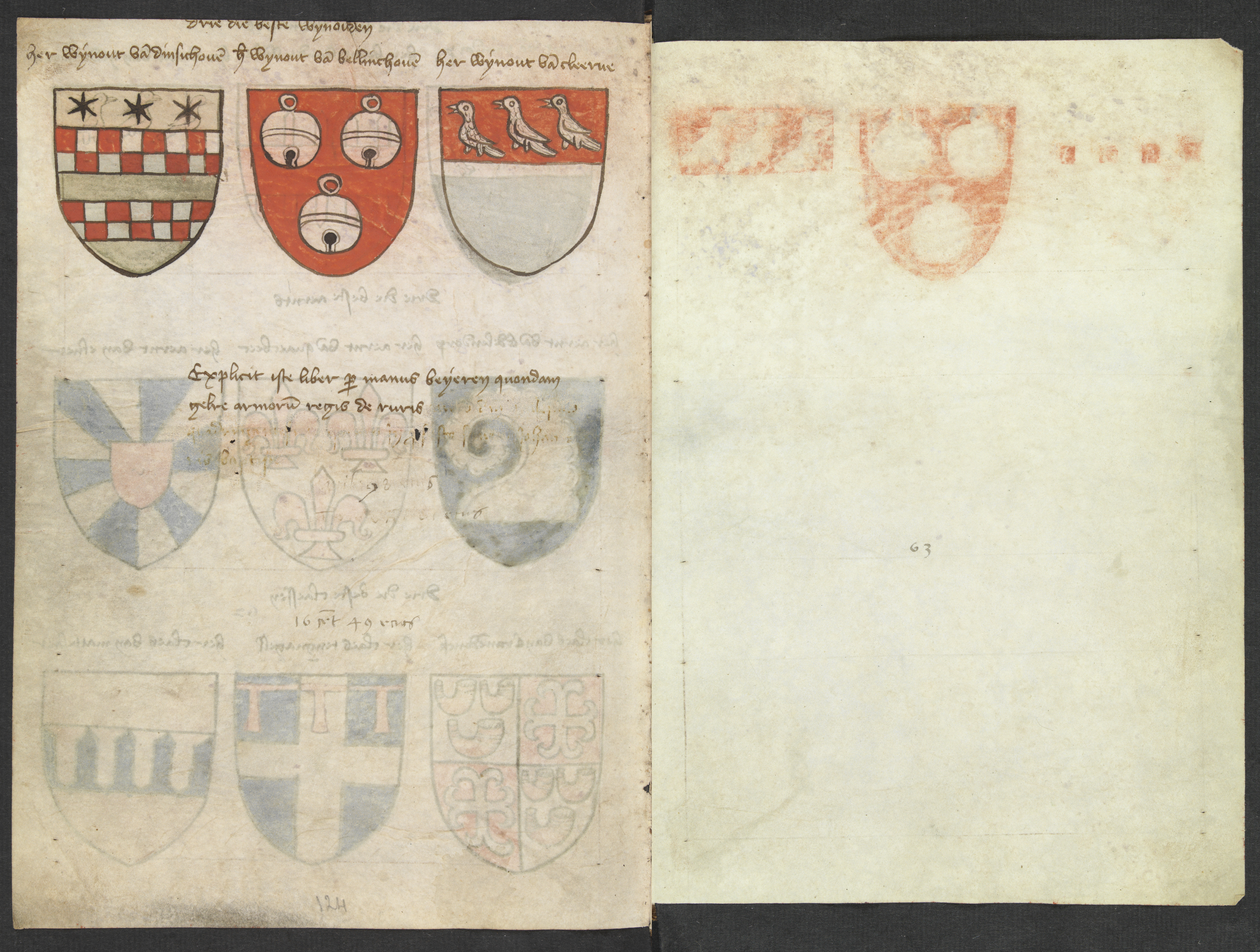 Folio 062v (left) from the Beyeren armorial / Wapenboek Beyeren. Here it is stated that the book was completed on 23 June 1405; it is written: Explicit iste liber per manus beyeren quondam gelre armorum regis de ruris [anno domini milesimo quadringentesimo quinto in profesto sancti Johannis baptiste] . Translation in